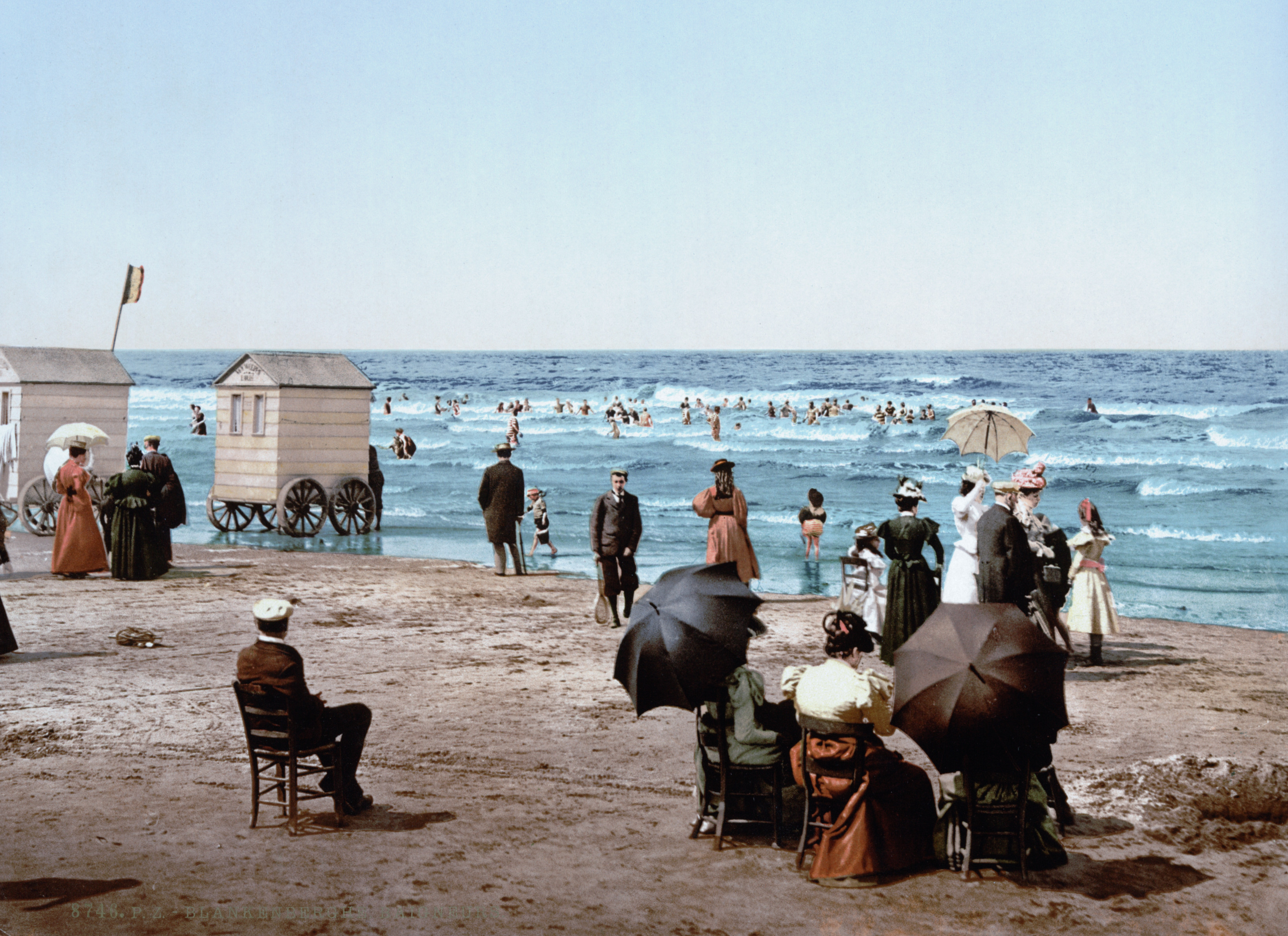 Belgium Blankenberge (old name: Blankenberghe), beach.